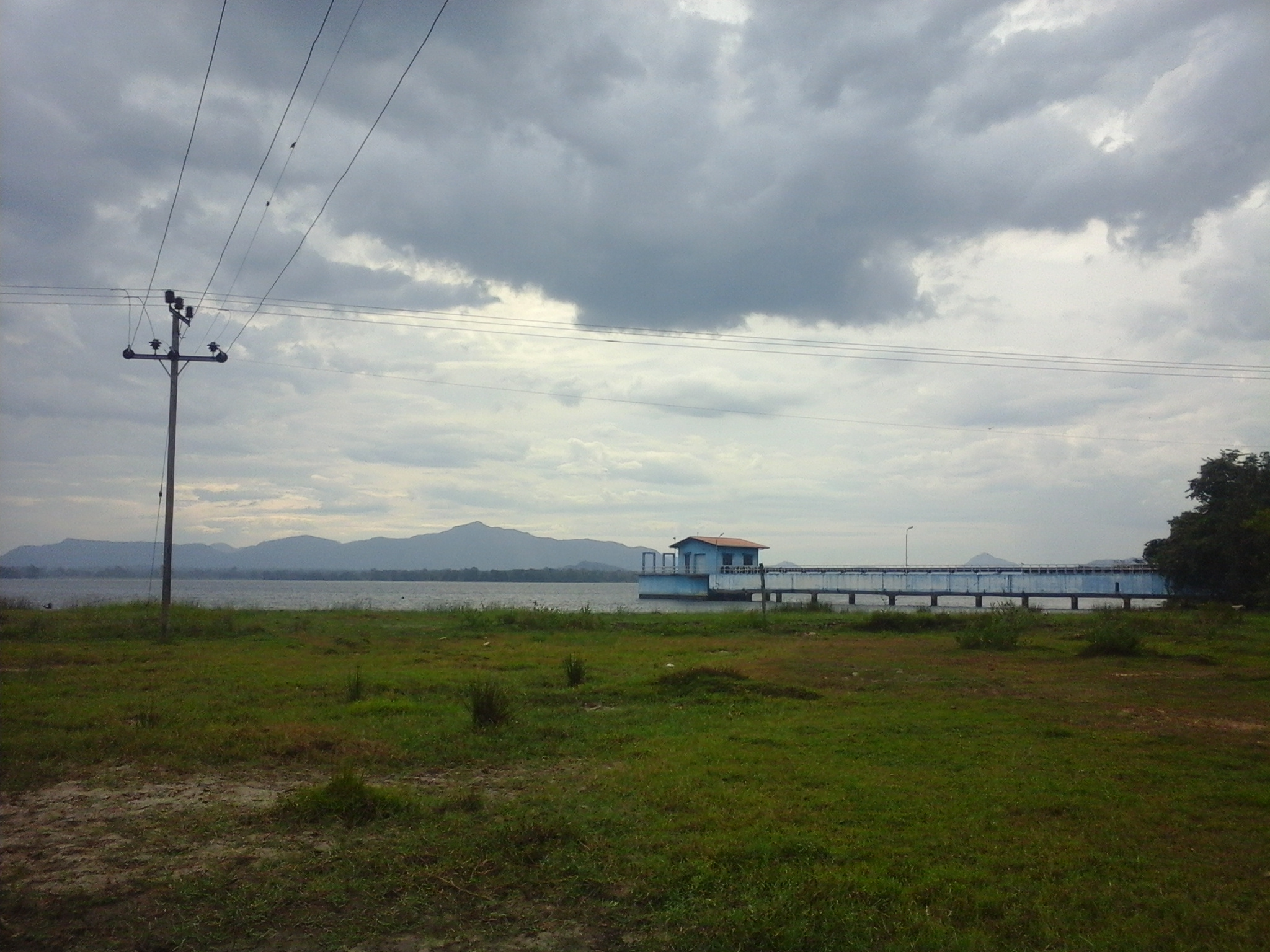 Konduwatuwan Tank